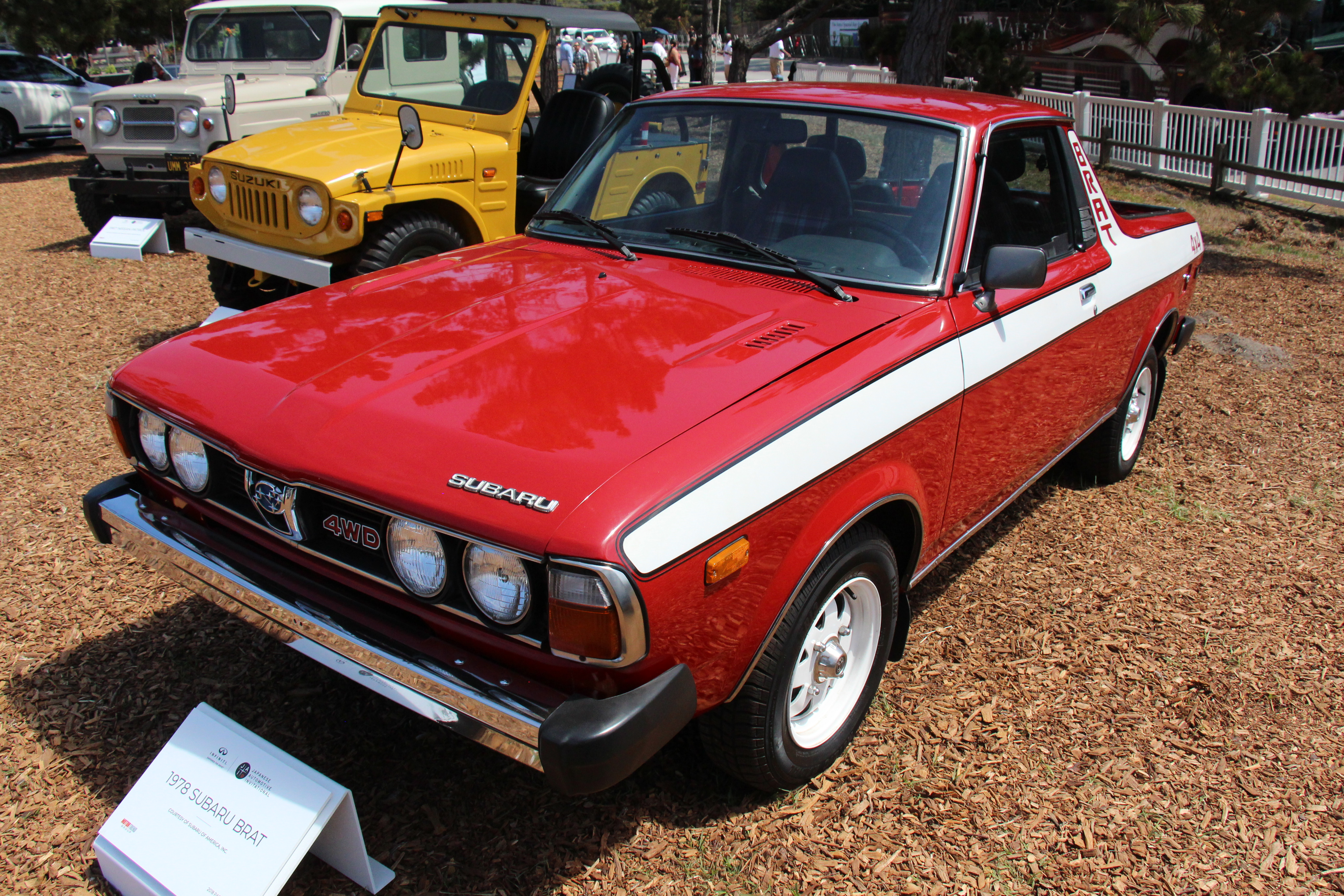 Known as the Subaru Brat in Japan and America (Bi-drive Recreational All-terrain Transporter) and Brumby in Australia, it was available from 1978-94. The Brat was introduced to match the demand for small trucks in the USA, from Toyota, Nissan, and Mazda. Unlike these trucks, all Brat had four-wheel drive, being developed from the existing Leone station wagon. Power was 1600 or 1800cc 4 cylinder Photographed at Pebbles Beach